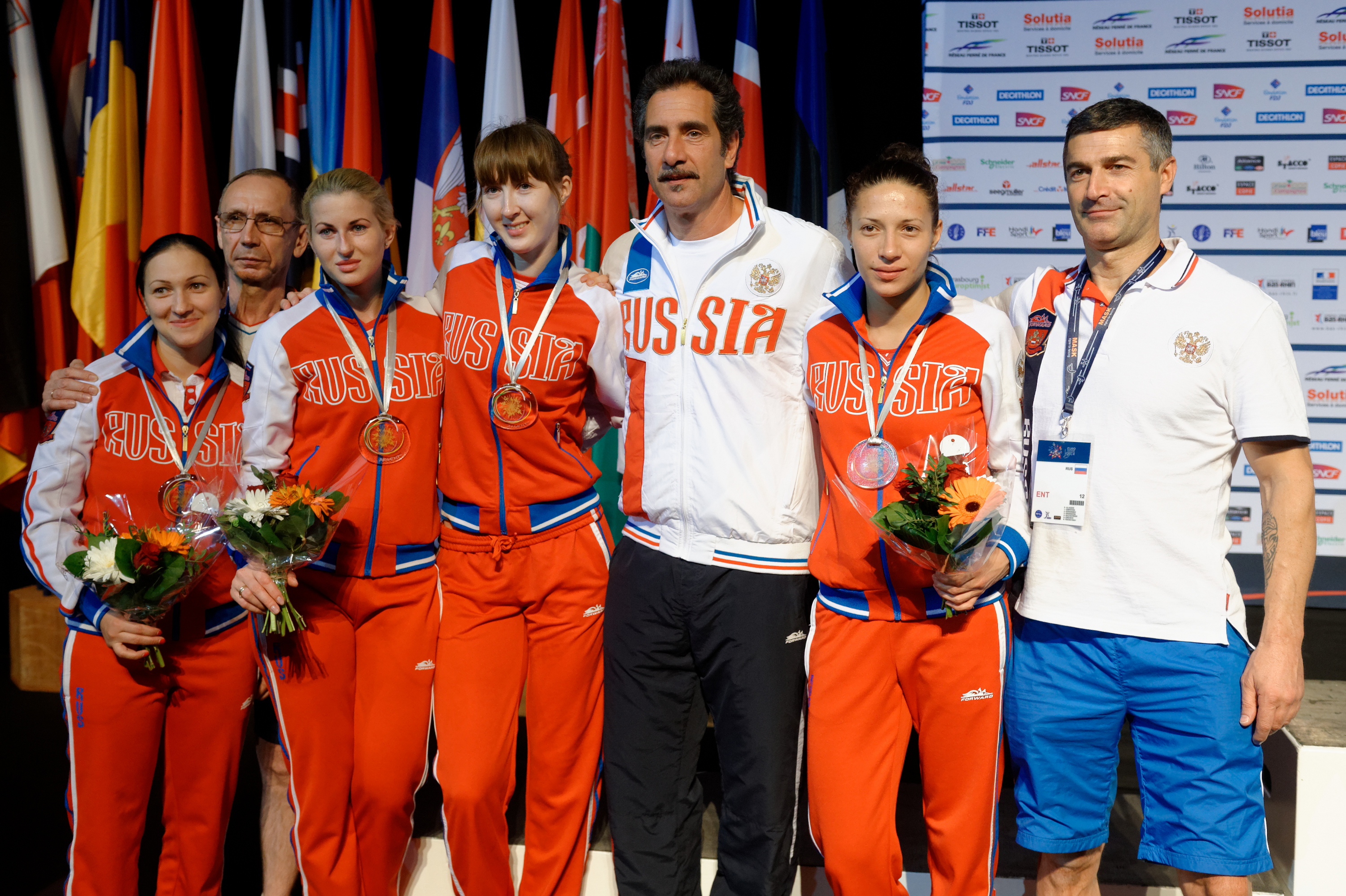 Russia (from left to right: Yulia Biryukova, Inna Deriglazova, Diana Yakovleva, and Larisa Korobeynikova) and the Russian technical staff (middle: Stefano Cerioni, right: Maurizio Zomparelli) at the award ceremony of the women's team foil event at the European Fencing Championships at Rhénus Sport in Strasbourg on 14 June 2014.